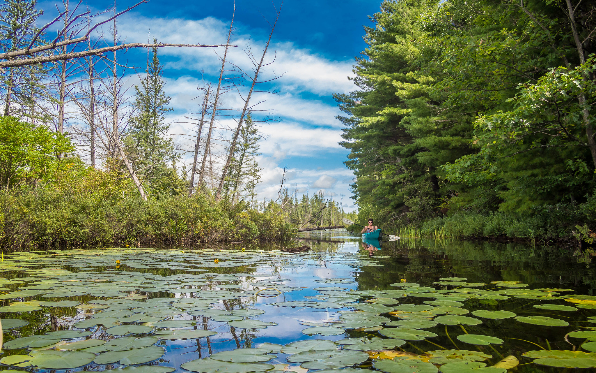 500px provided description: Lake DuBonnet is a lake located about 10 miles from Traverse City, in Grand Traverse County, Michigan near Interlochen. Fishermen will find a variety of fish including yellow perch, pumpkinseed sunfish, northern pike, smallmouth bass, walleye, crappie and bluegill here. [#lake ,#water ,#summer ,#kayak ,#kayaking ,#paddle ,#mid-west ,#Grand Traverse County ,#inland lakes ,#Michigan ,#DuBonnett State Forest]